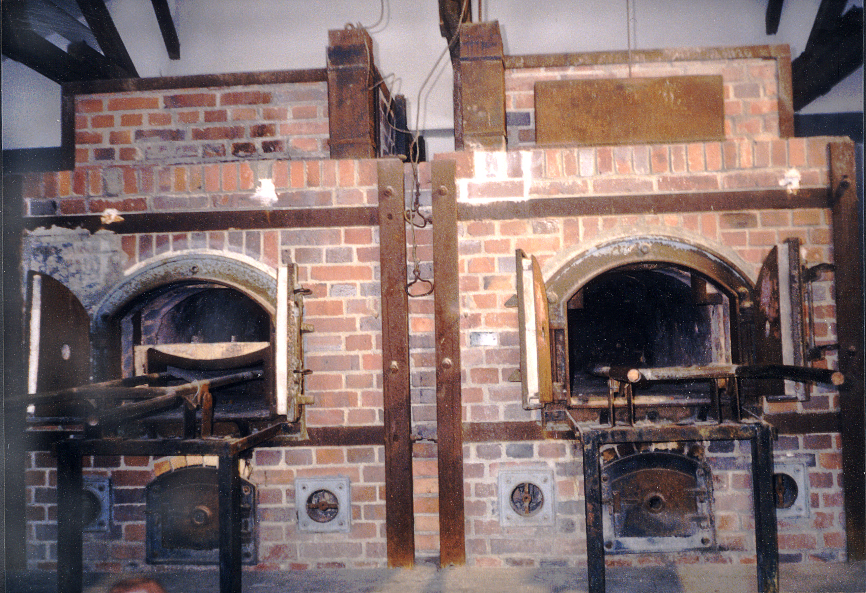 KL Dachau Block X crematory